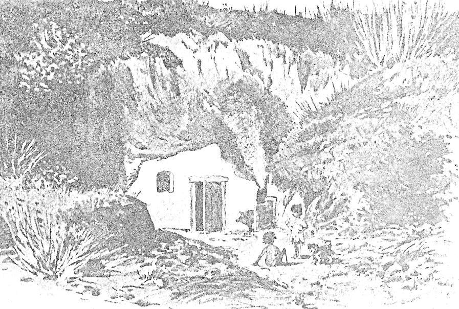 Cave used as flat, Andornak, Hungary, ~1900